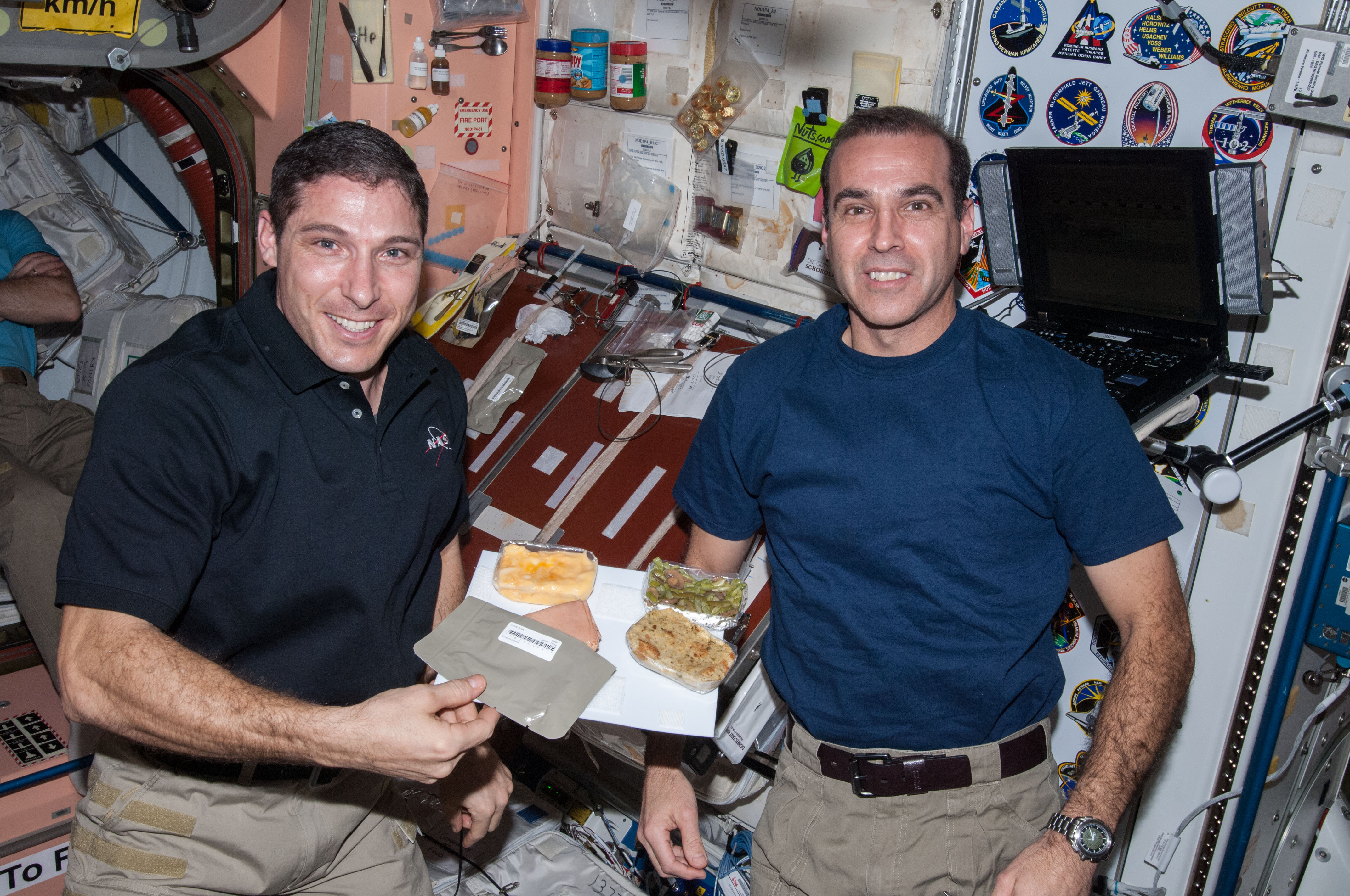 NASA astronauts Michael Hopkins (left) and Rick Mastracchio, both Expedition 38 flight engineers, pose for a photo with a Thanksgiving meal in the Unity node of the International Space Station.